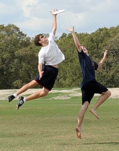 Adam Ginsburg Del Sol tournament 2005 at Texas A&M